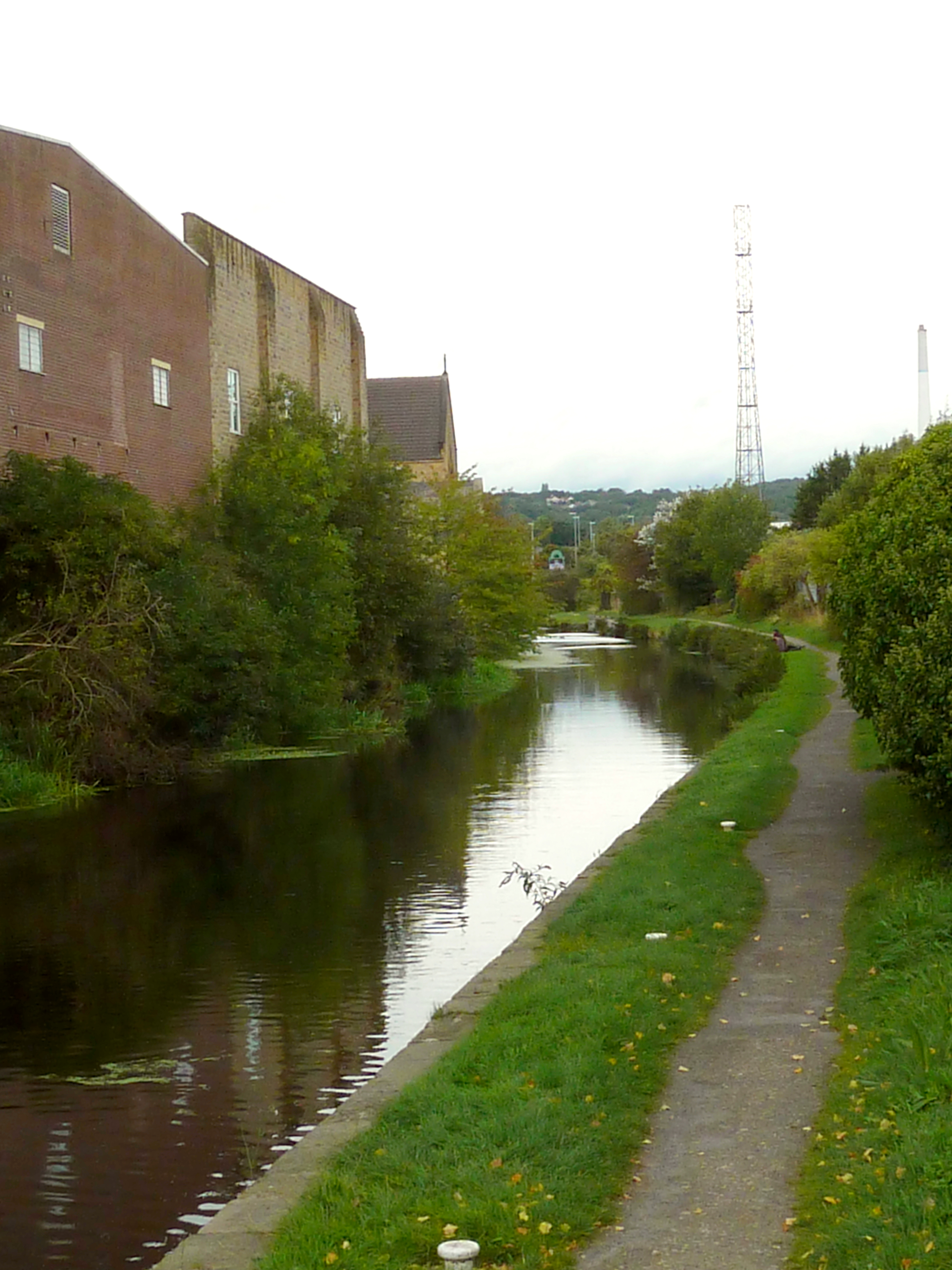 Former Church of St Mark, Old Leeds Road, Huddersfield, North Yorkshire, England. Built 1887, designed by architect William Swinden Barber. View, looking north, of Huddersfield Broad Canal with the former church in the background.